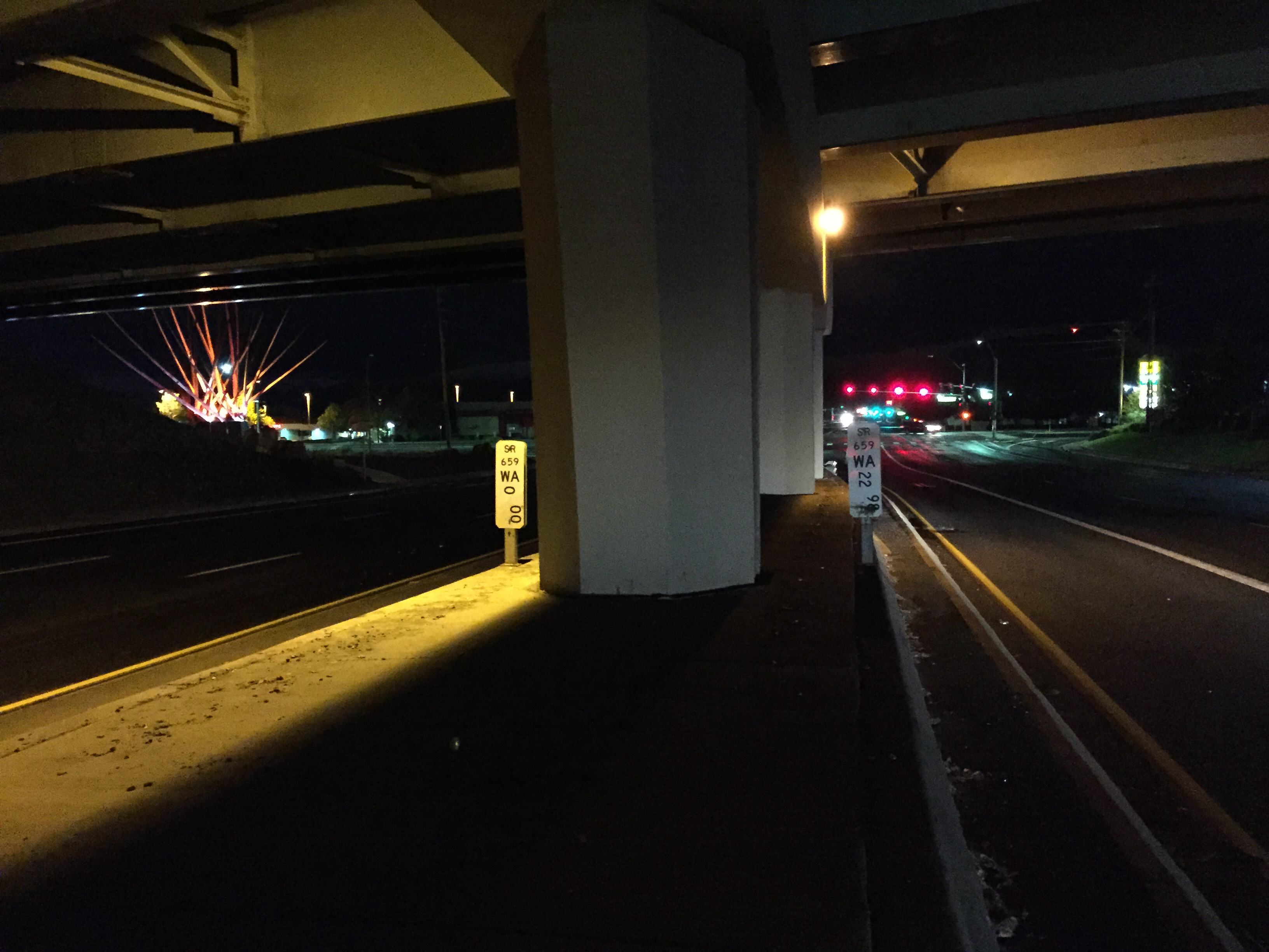 Mileposts at the beginning and end of Nevada State Route 659 (McCarran Boulevard) under Interstate 580 and U.S. Route 395 in Reno, Nevada